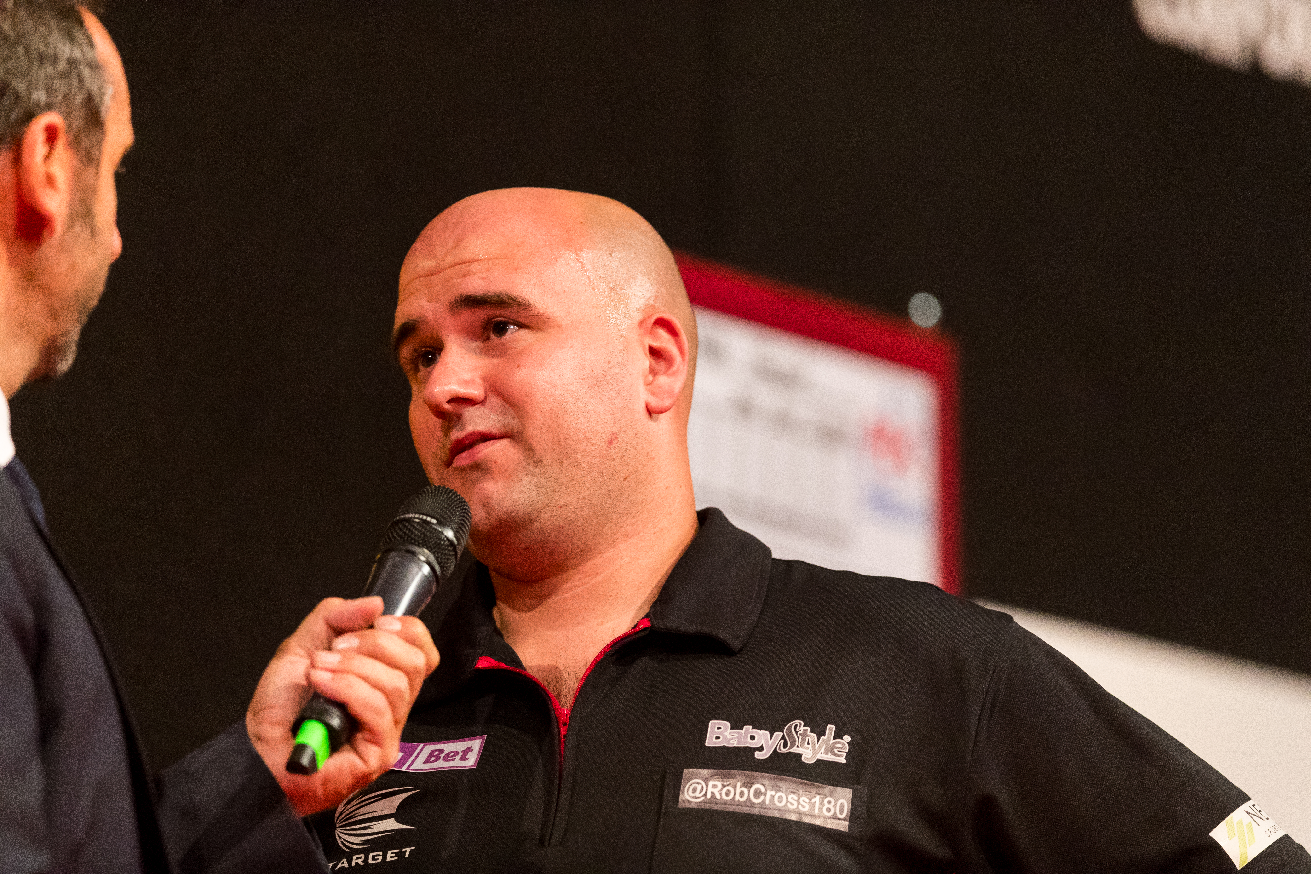 [14] Rob Cross (ENG) 6:2 [11] Ian White (ENG) during Professional Darts Corporation (PDC), German Darts Grand Prix (GDGP) at Maimarkthalle, Mannheim, Baden-Württemberg, Germany on 2017-09-10, Photo: Sven Mandel